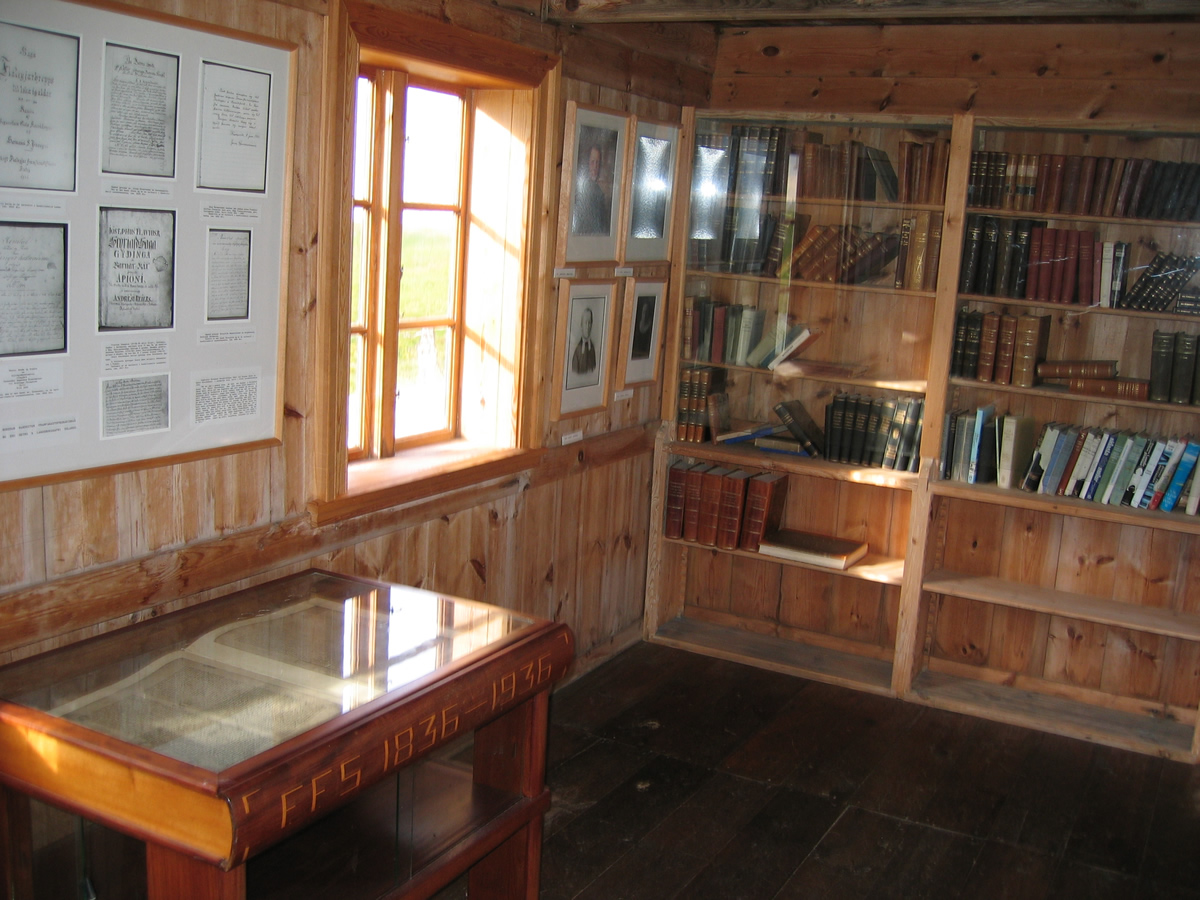 Flatey á Breiðafirði, Iceland picture taken by Salvor Gissurardottir in July 2006 The interior of the library in Flatey Inni í bókasafninu í Flatey